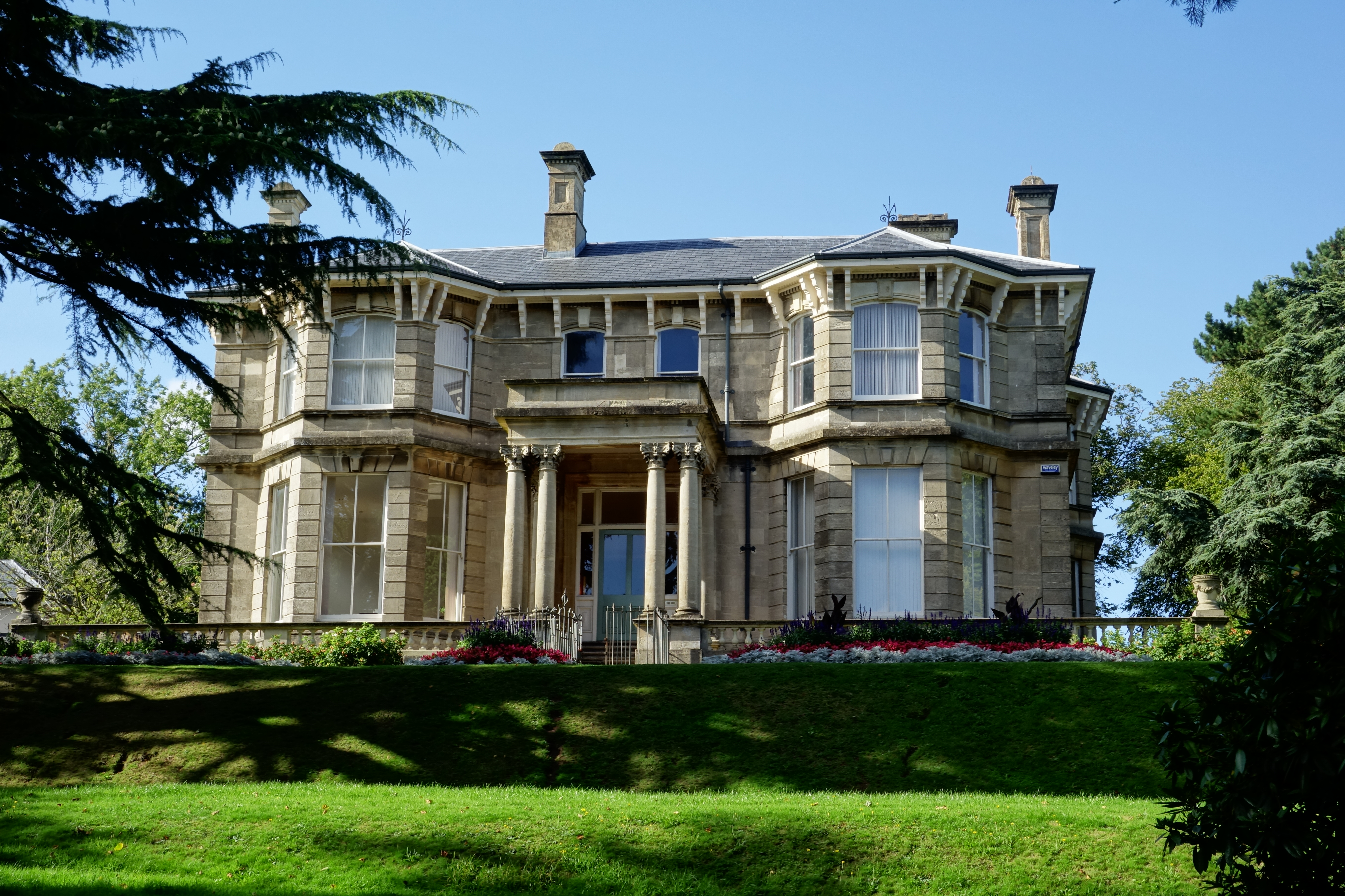 Beechwood House, attached forecourt wall and attached coach-house range Wikidata has entry Q29483035 with data related to this item. Beechwood House, framed by trees and shadows.